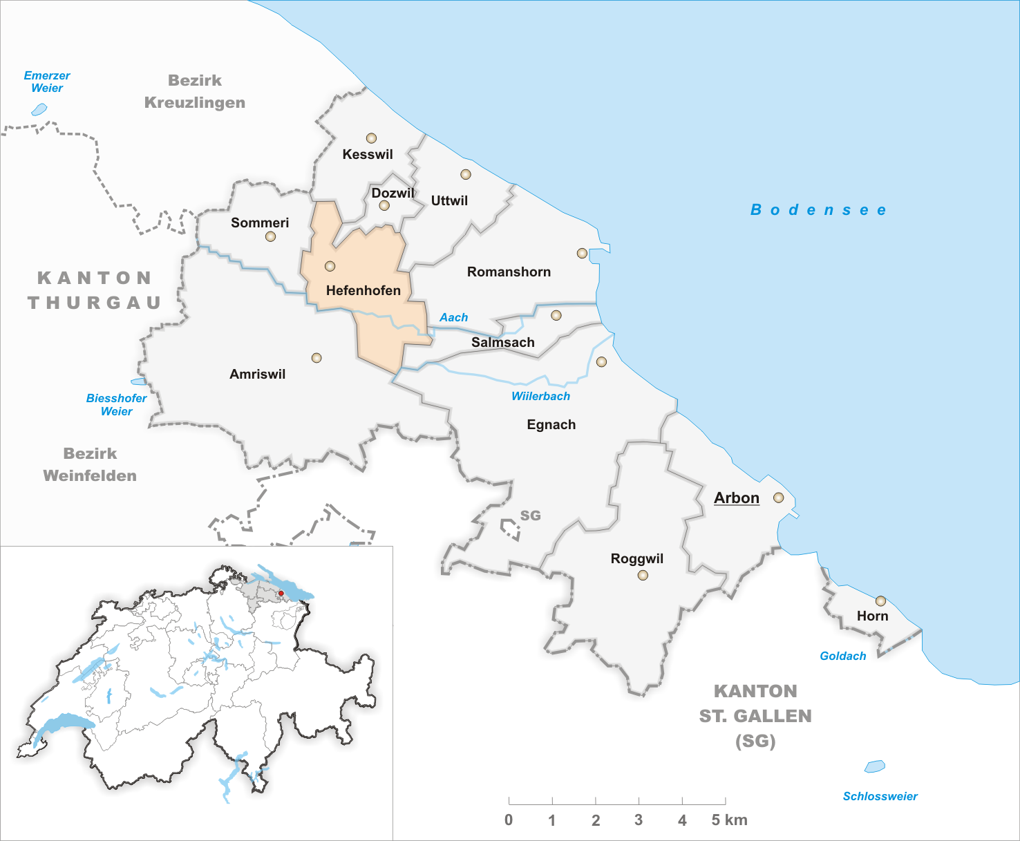 Municipality Hefenhofen